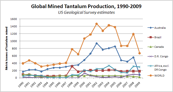 Graph of mined tantalum output from 1990 to 2009 for Austrralia, Brazil, Canada, Democratic Republic of the Congo, Africa excluding D.R. Congo, and World, based on estimates from the U.S. Geological Survey's Mineral Yearbooks